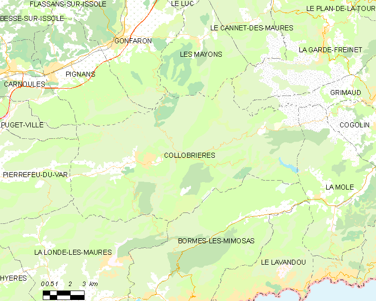 Map of French municipality Collobrières